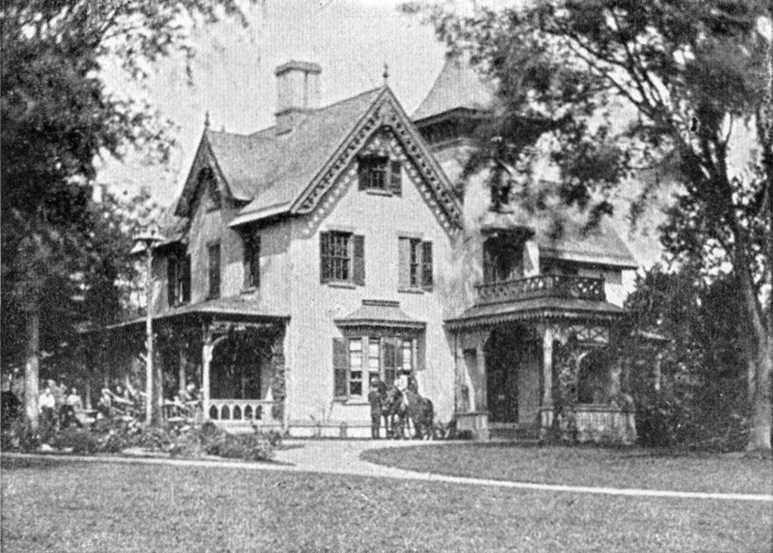 The main entrance of Joel T. Headley's estate, Cedar Lawn, in New Windsor, New York. From a March 1904 advertisement, Country Life in America.